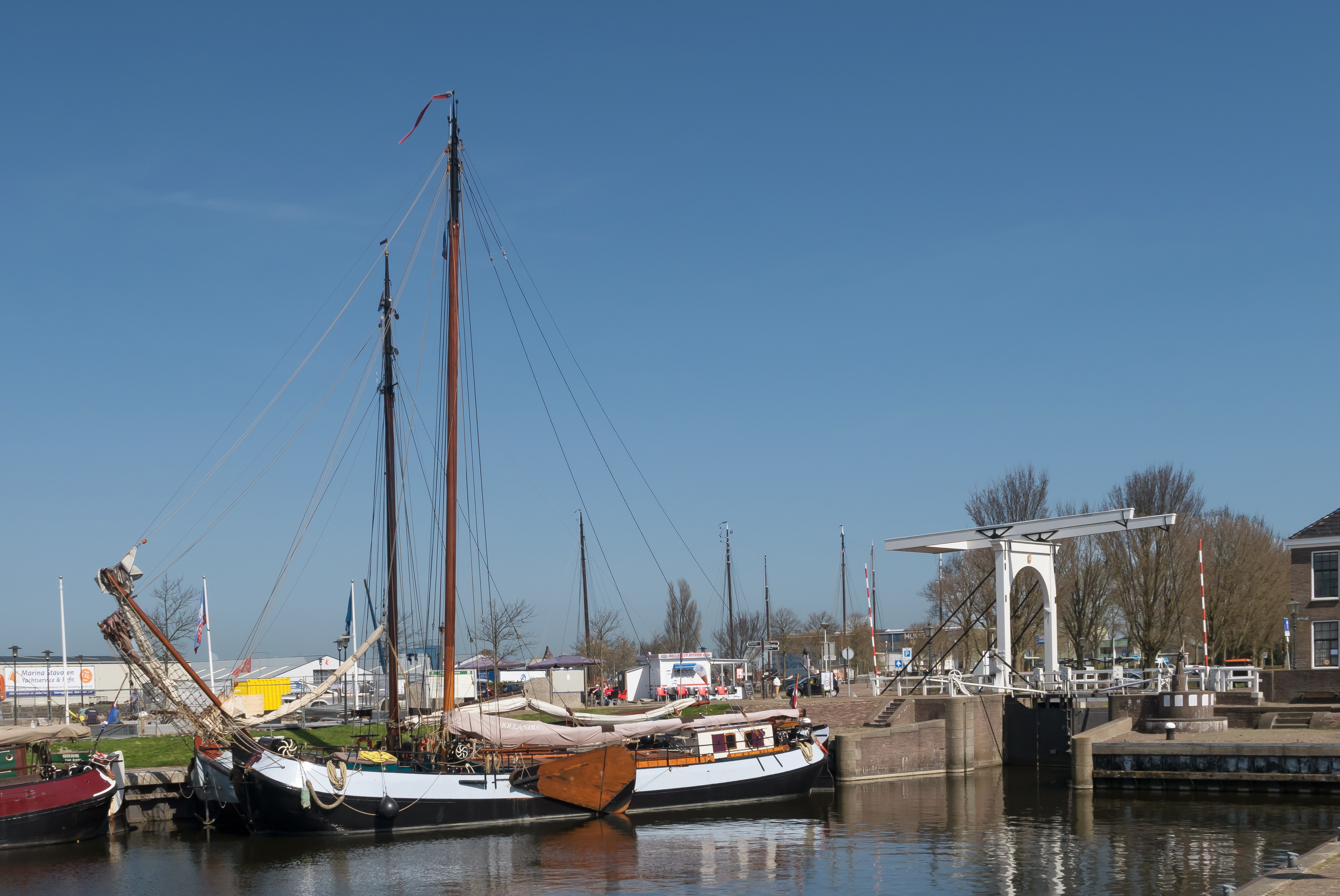 Stavoren, view to the drawing bridge near the Lady of Stavoren